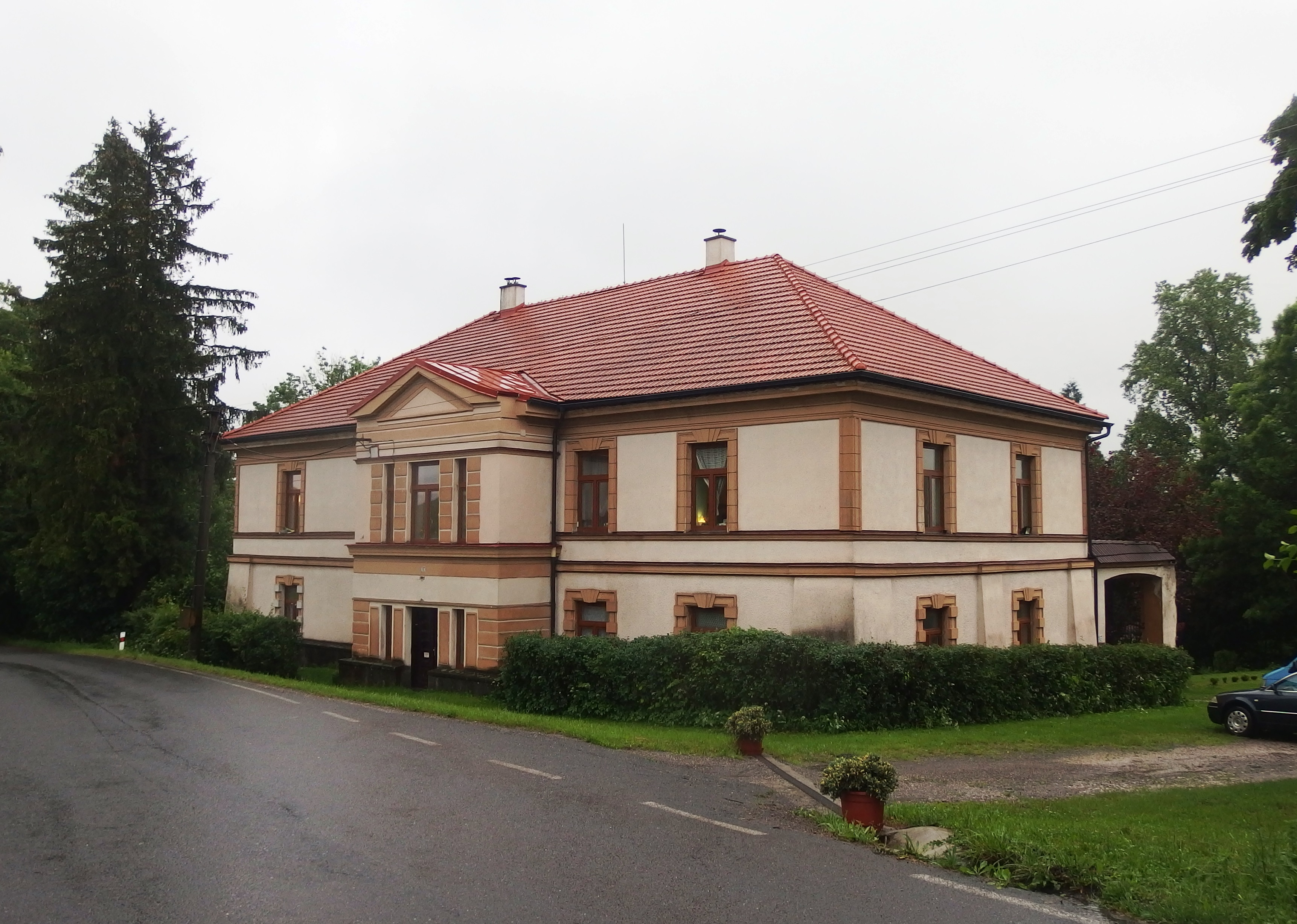 Dolní Tošanovice, Frýdek-Místek District, Czechia.